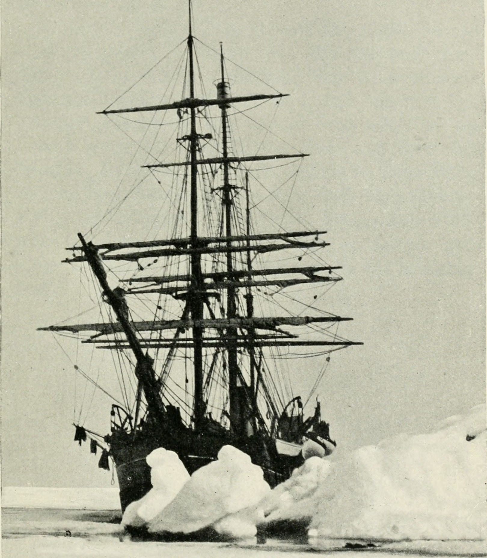 Title: A voyage to the arctic in the whaler Aurora Year: 1911 (1910s) Authors: Lindsay, David Moore, 1862- Subjects: Aurora (Ship) Whaling Publisher: Boston : Dana Estes & Co. Text Appearing Before Image: ' Text Appearing After Image: aOMMlfaiMBii Copyright by Valentine, Dundee. Pounding away at the Floe IN THE WHALER AURORA 139 The fog was so thick that nothing could be seenahead. We saw nothing further of the Thetis asshe remained at Cape York to pick up the partylanded by the Bear, I turned in for a time during the night, as theship was beset by heavy ice. We had now com-pleted the passage of Melville Bay without acci-dent and nearly every one on board felt that thegreatest danger of the voyage was over, so wewould work our way to the west and look forwhales. In the race from St. Johns to Cape Yorkwe had been beaten by the Bear only, and that byjust a few minutes. The Arctic, Thetis and Wolfwere all close, but in the last lap the Aurora and\Bear were neck and neck almost to the winningpost. 140 A VOYAGE TO THE ARCTIC CHAPTER XII CAPE YORK TO CAREY ISLANDS And now there came both mist and snowAnd it grew wondrous cold,And ice, mast-high, came floating byAs green as emerald. I noticed a rather curious phenomenon w